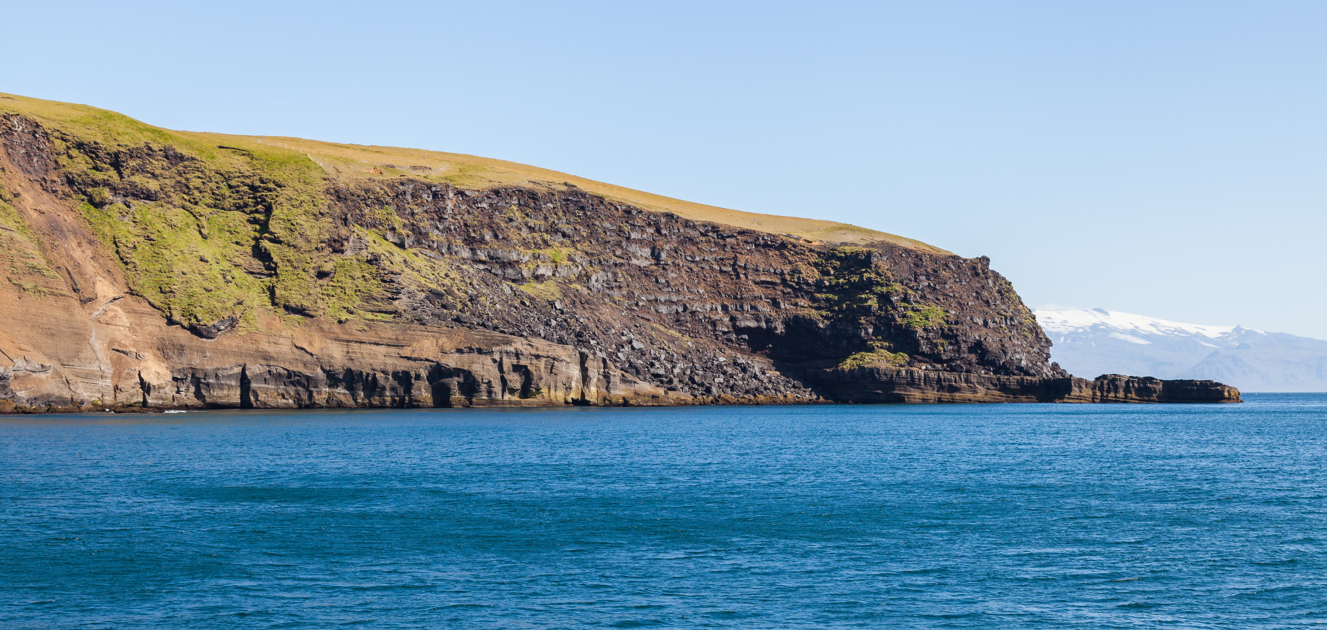 Cliffs of Heimaey, Westman Islands, Suðurland, Iceland